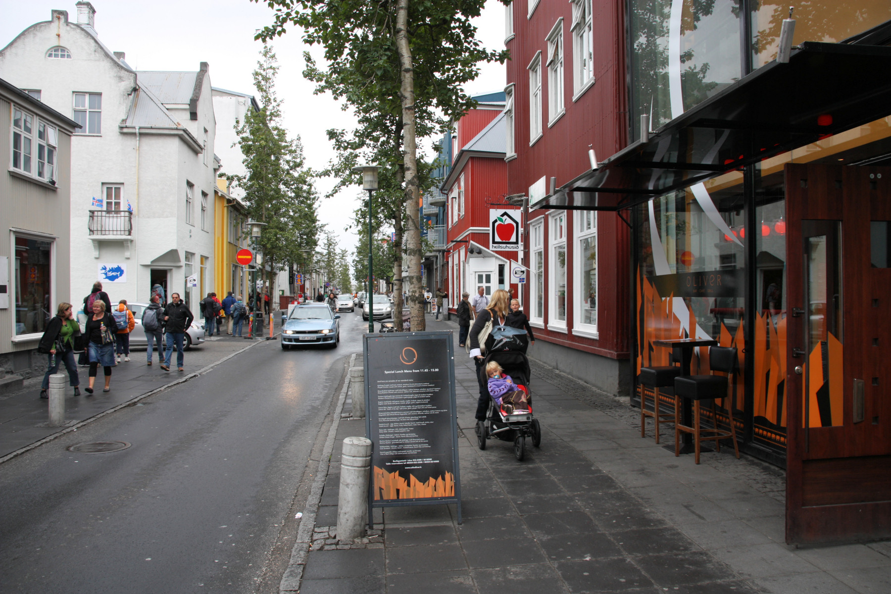 Laugavegur - famous street in Reykjavik, Iceland.